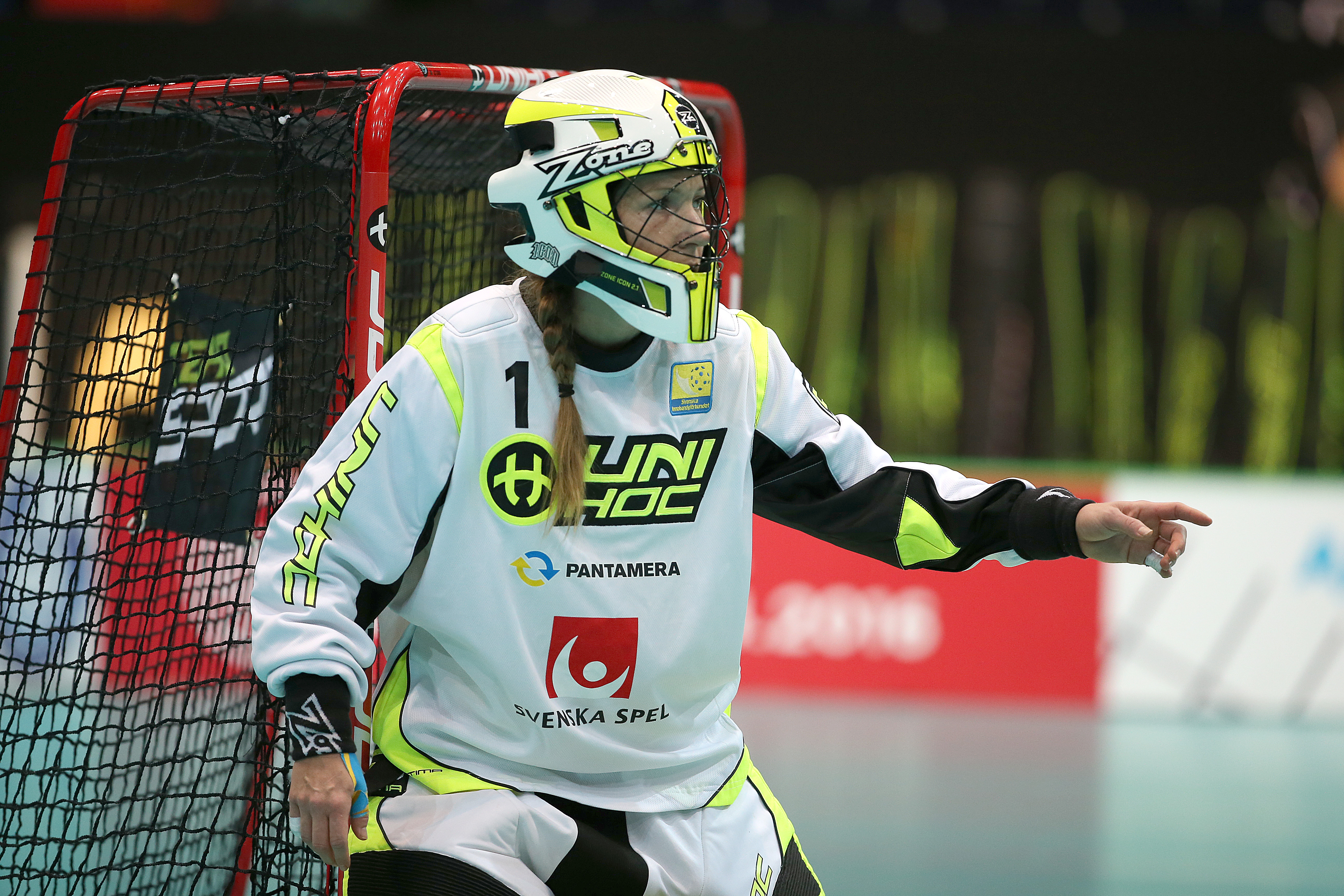 Sara Hjorting, swedish floorballgoalie, in the goal of the swedish national team